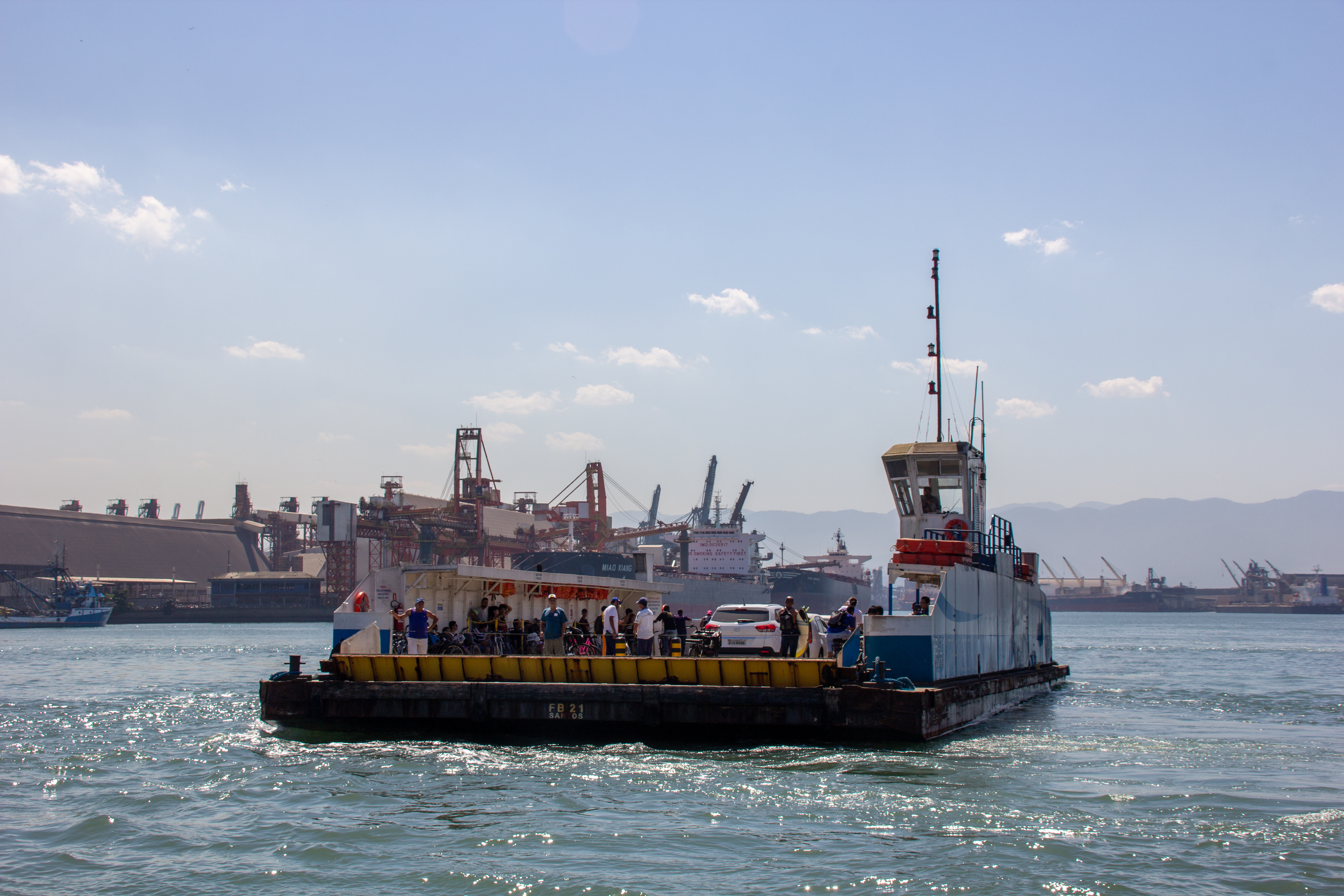 Santos-Guarujá crossing, São Paulo State, Brazil